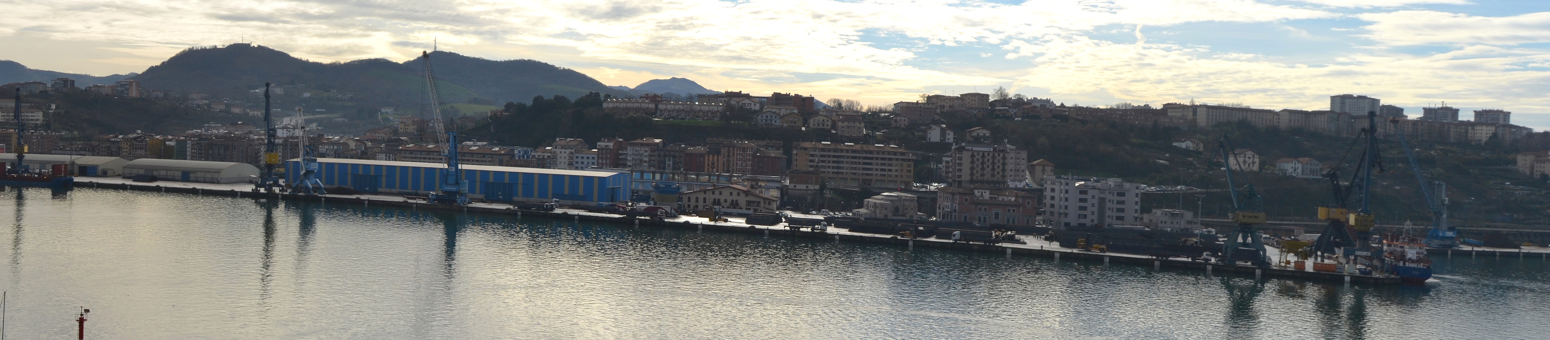 Pasai Antxo, Pasaia. Gipuzkoa, Basque Country.